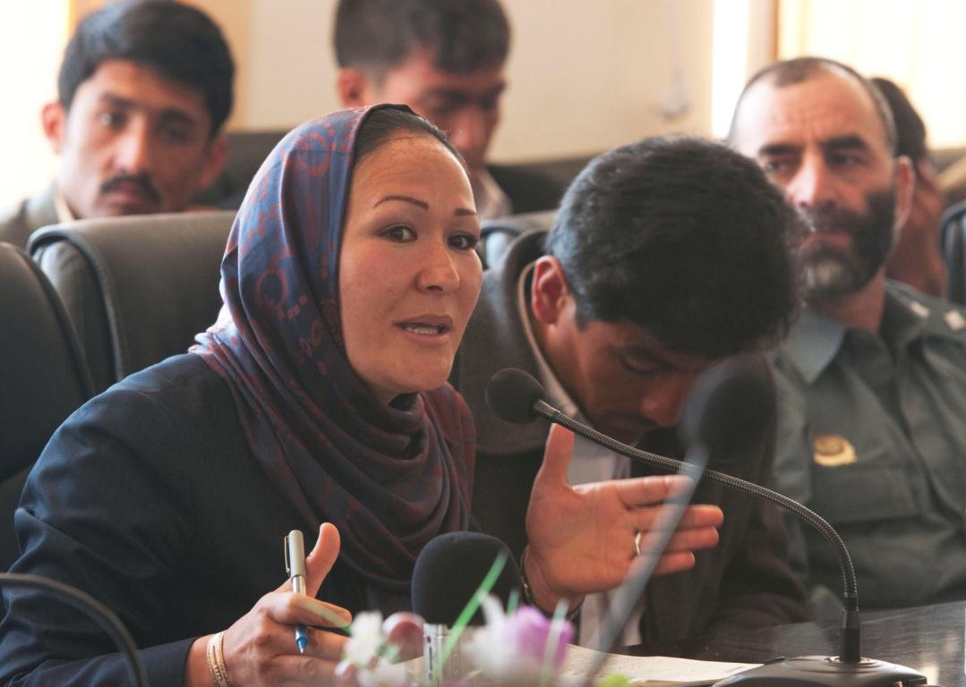 Azra Jafari, mayor of Nili and the first female mayor appointed by President Karzai, speaks to members of the High Peace Council on April 15, 2012. The meeting, which occurred in Nili the capital of Daykundi province, formally integrated the Daykundi Peace Council into the national peace planning.